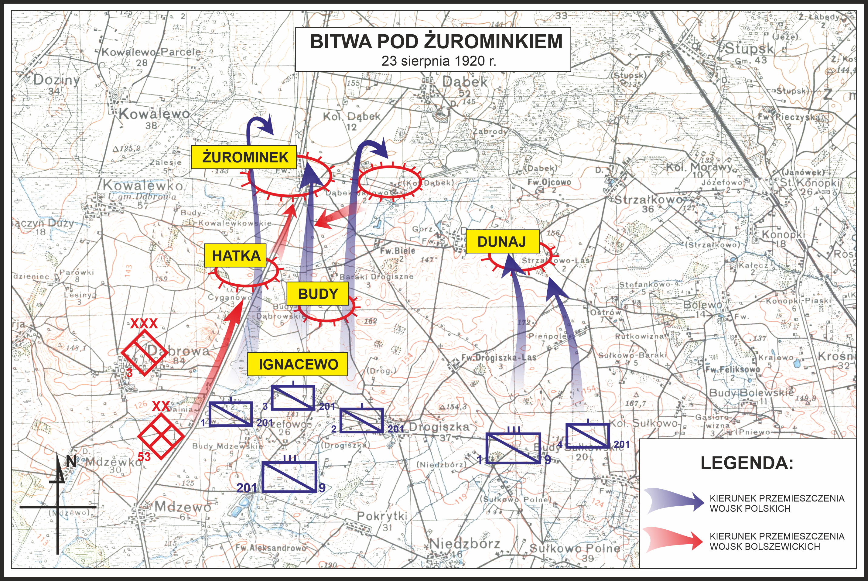 Battle of Zurominek 1920